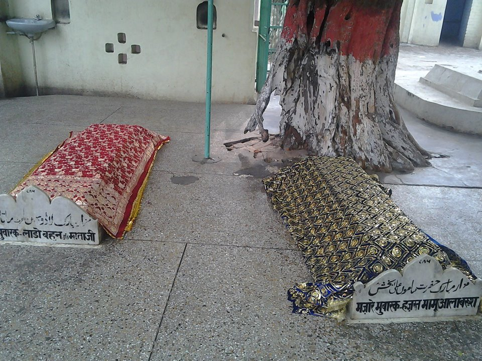 Dargah Shriff of Hazrat Mamu Aalla Baksh & Mata Lado Rani